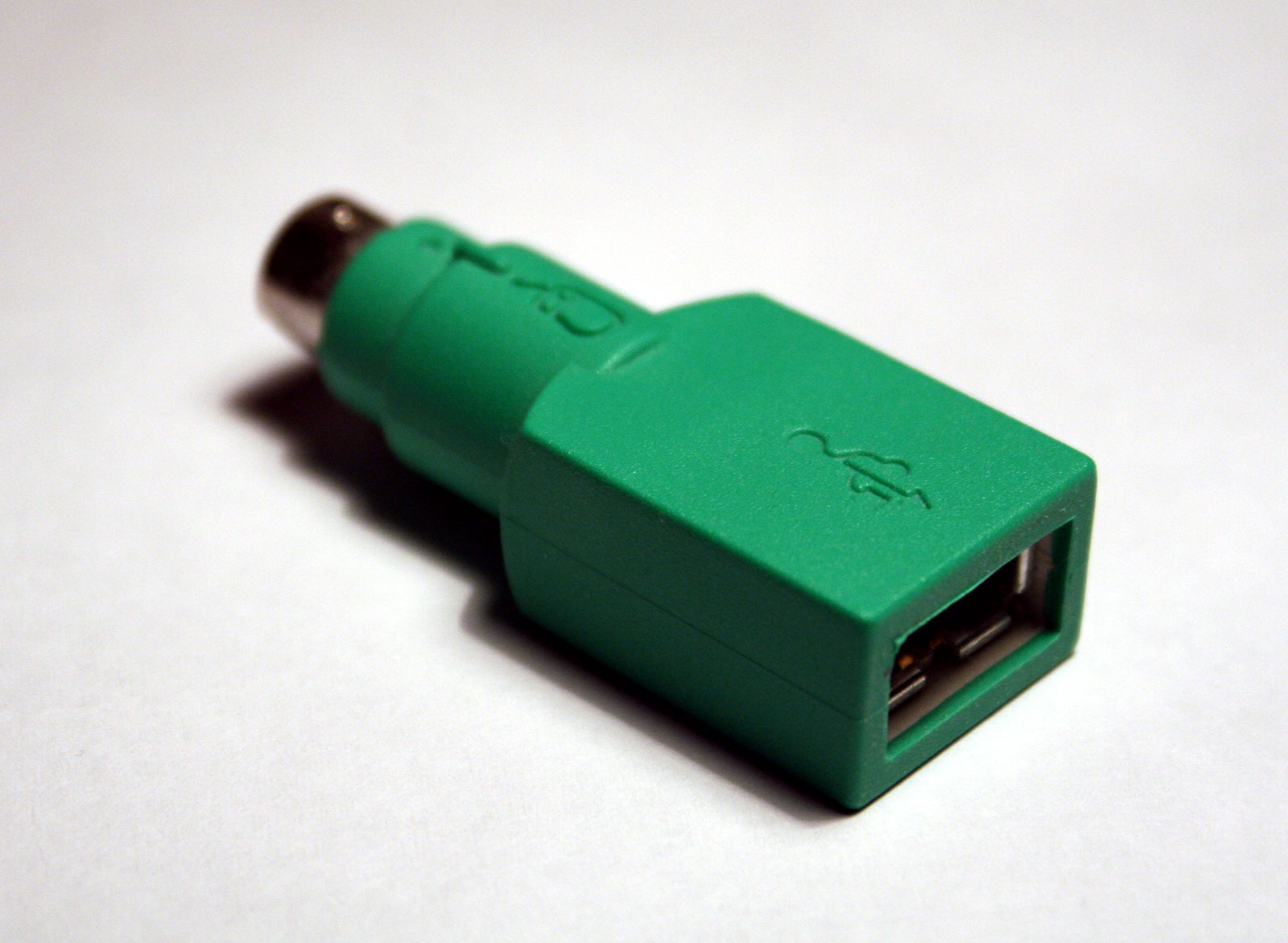 A USB to PS/2 adaptor that came with a Logitech mouse. Taken by Enoch Lau on 22 July 2006. As a courtesy, please let me know if you alter this image or this image description page. Original filename was IMG_0355.JPG. An alternative image can be found at Image:USB to PS2 adaptor horiz.jpg.